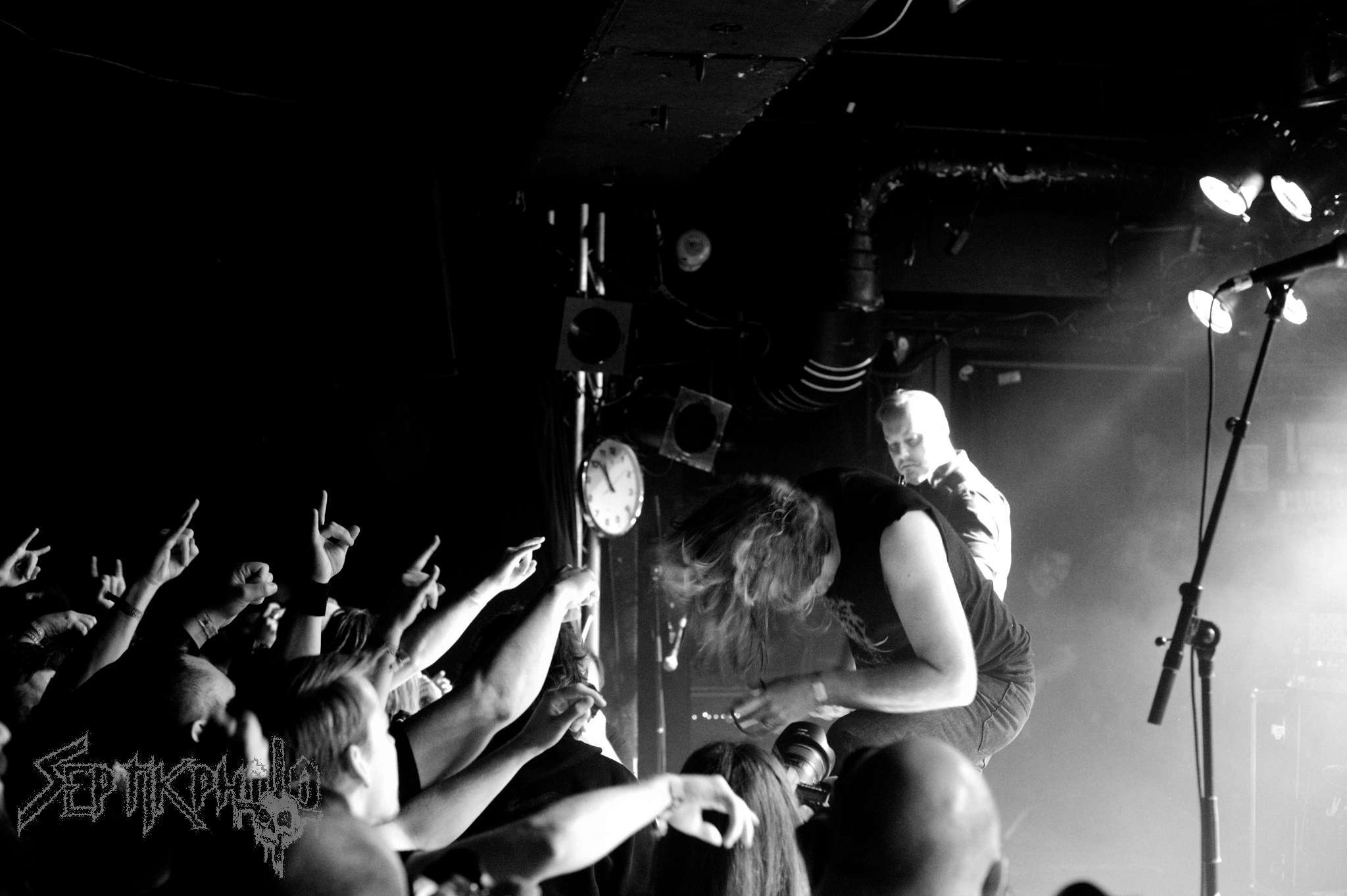 Cattle Decapitation at Inferno 2016, in Oslo (Norway)